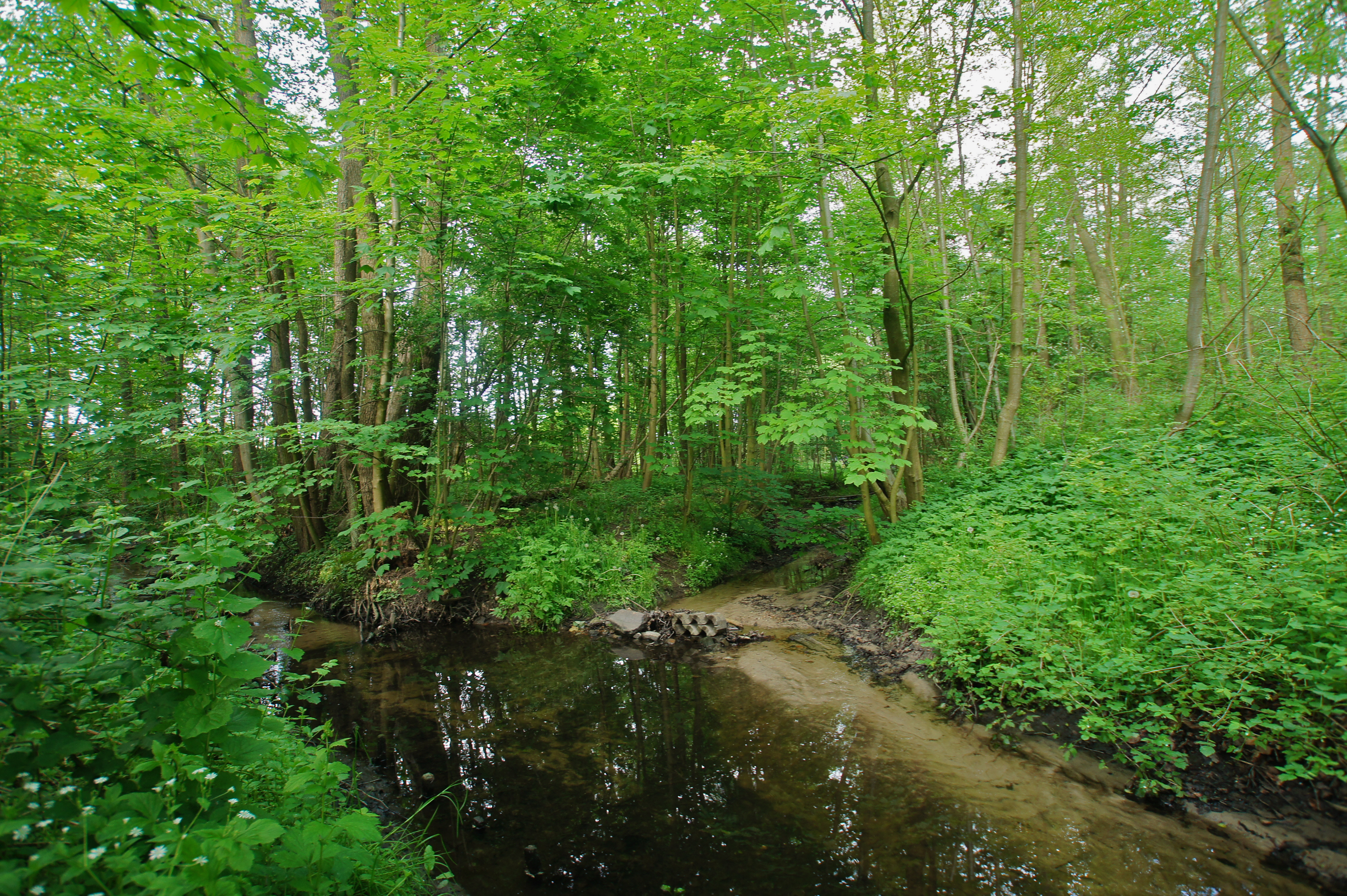 Hamburg (Farmsen-Berne), Germany: Confluence of the rivers Deepenhorngraben and Berner Au